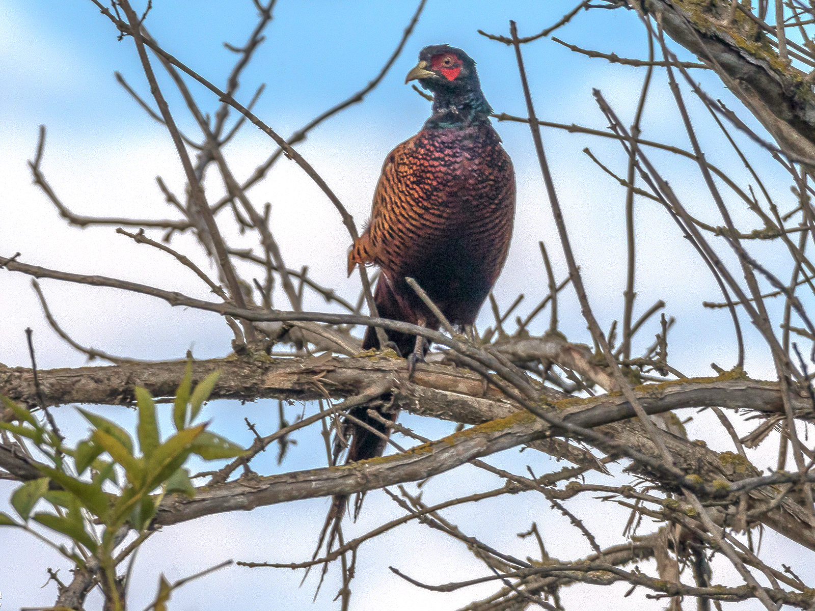 This is an image of the Biosphere Reserve: Astrakhan Nature Reserve